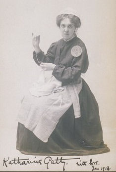 A Photographic portrait of suffragette Katharine Gatty in her prison uniform. Signed on the front " Katharine Gatty. With love Jan 1913". On the reverse, "To my dear an splendid comrade and friend - Miss Turner